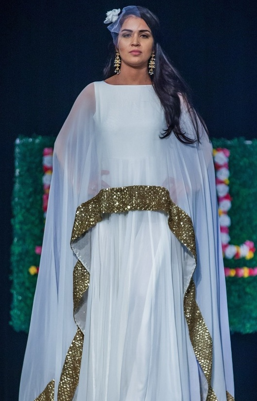 Bahari Ibaadat at Kamal Beverly Hills Fashion